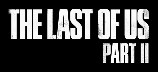 Logotype of The Last of Us Part II